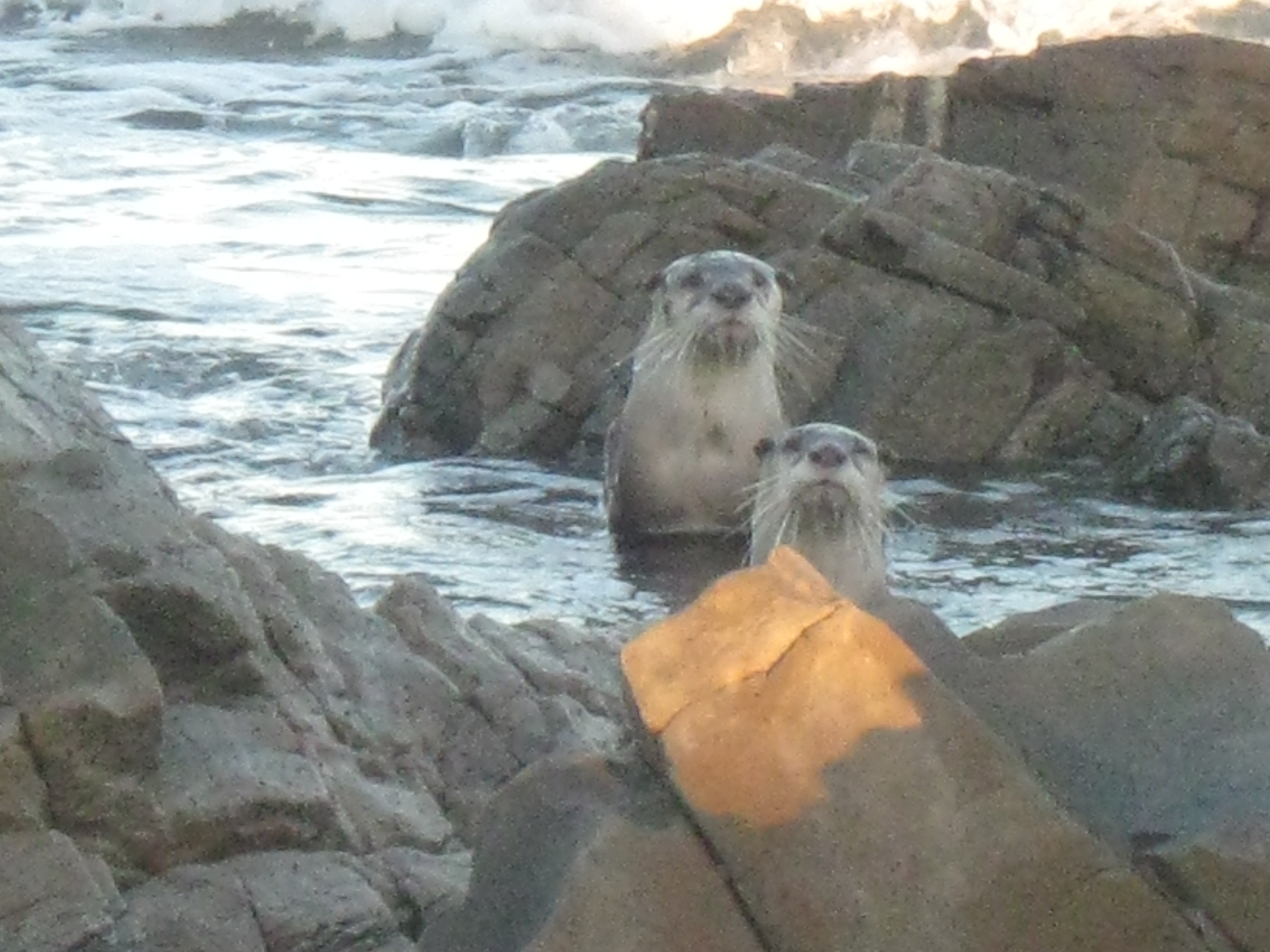 Oyster Bay, Eastern Cape, South Africa